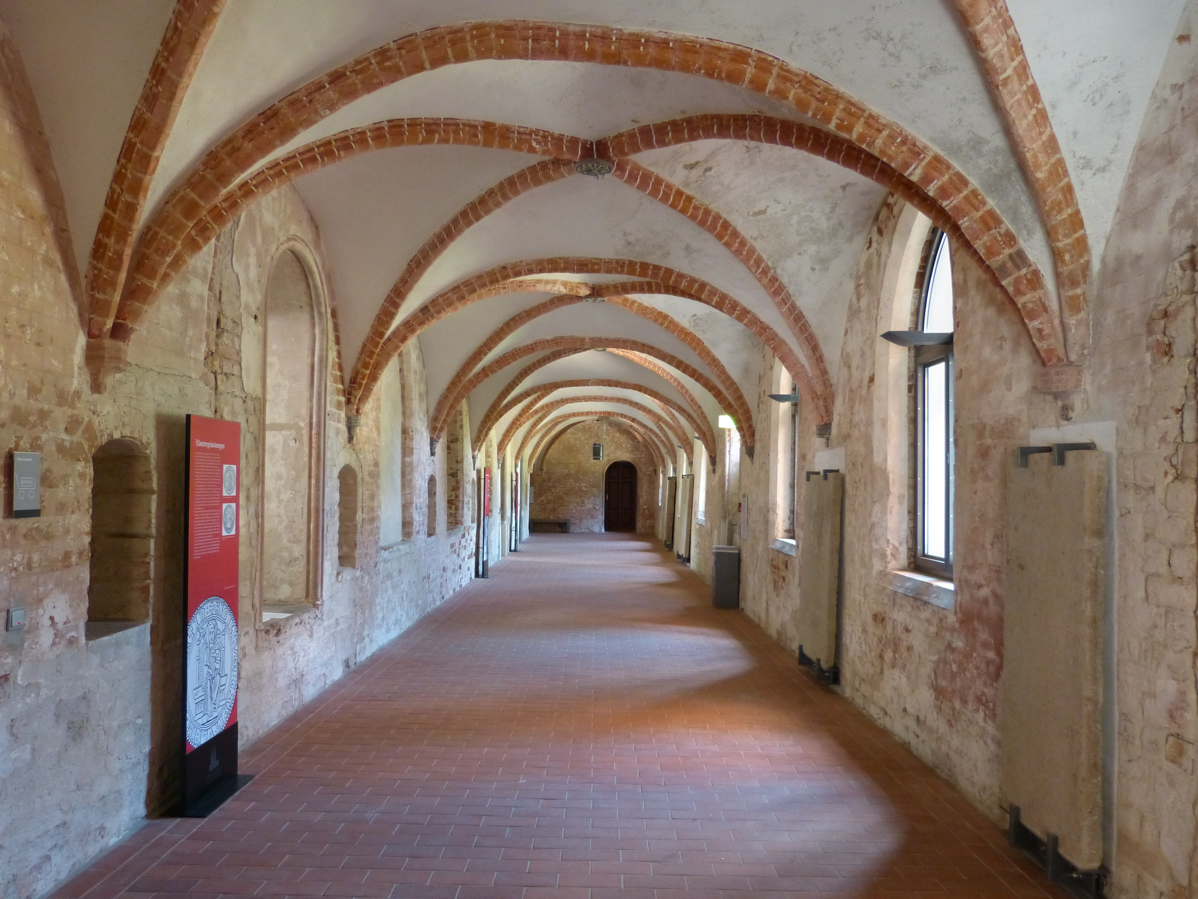 Dobbertin ( Mecklenburg ). Monastery: Cloisters ( 13th century ).